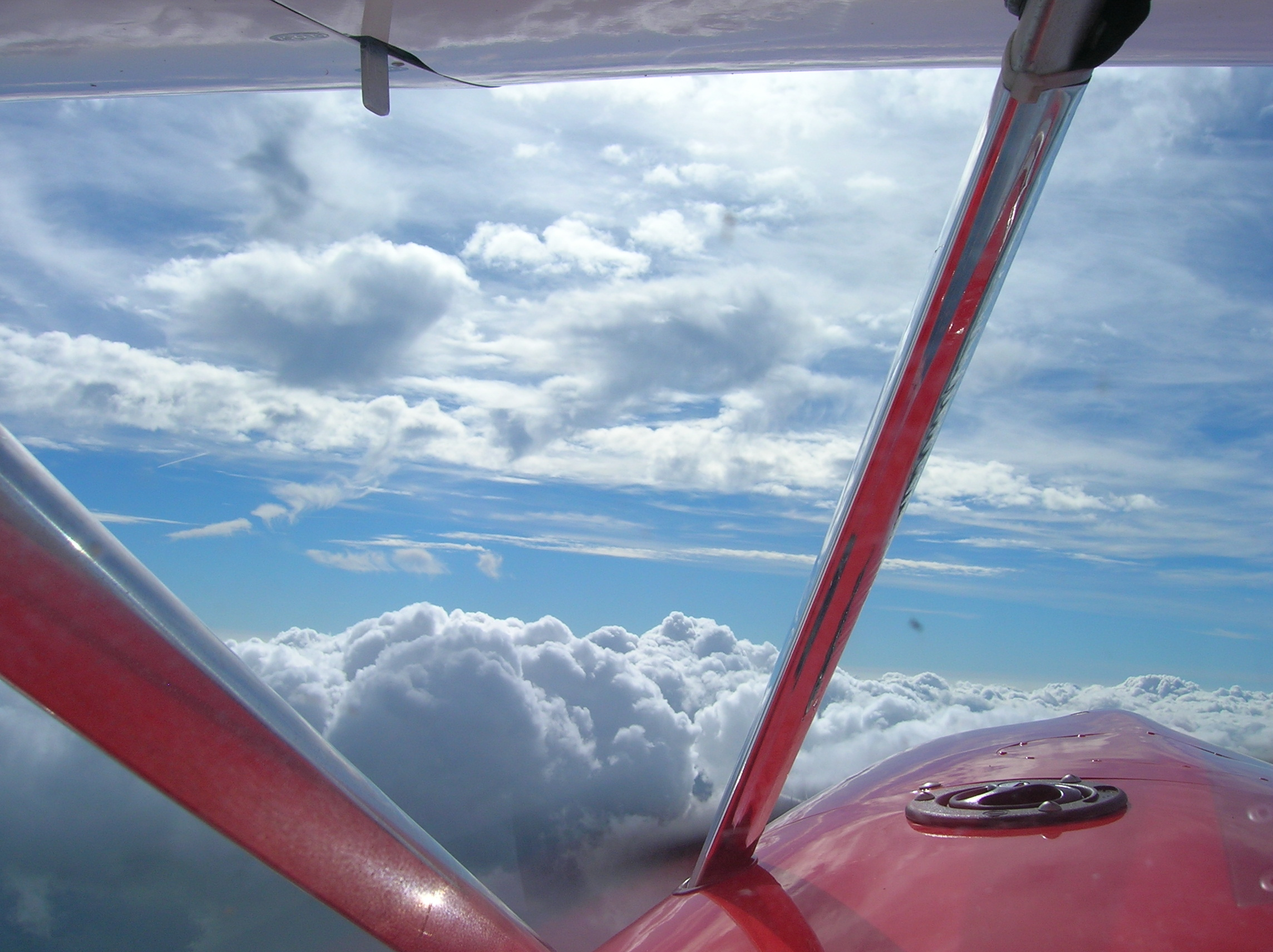 View from the front seat of a B&F FK 12 Comet Biplane